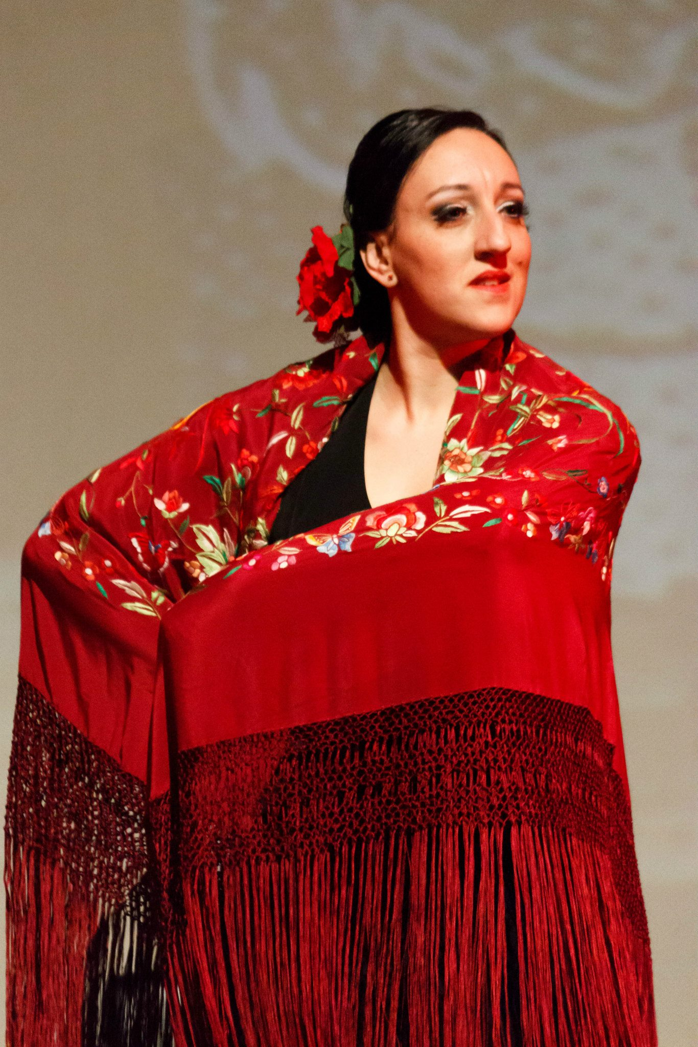 A performer of the Maltese Alcgeria Dance Company performing at Alcheringa 2015